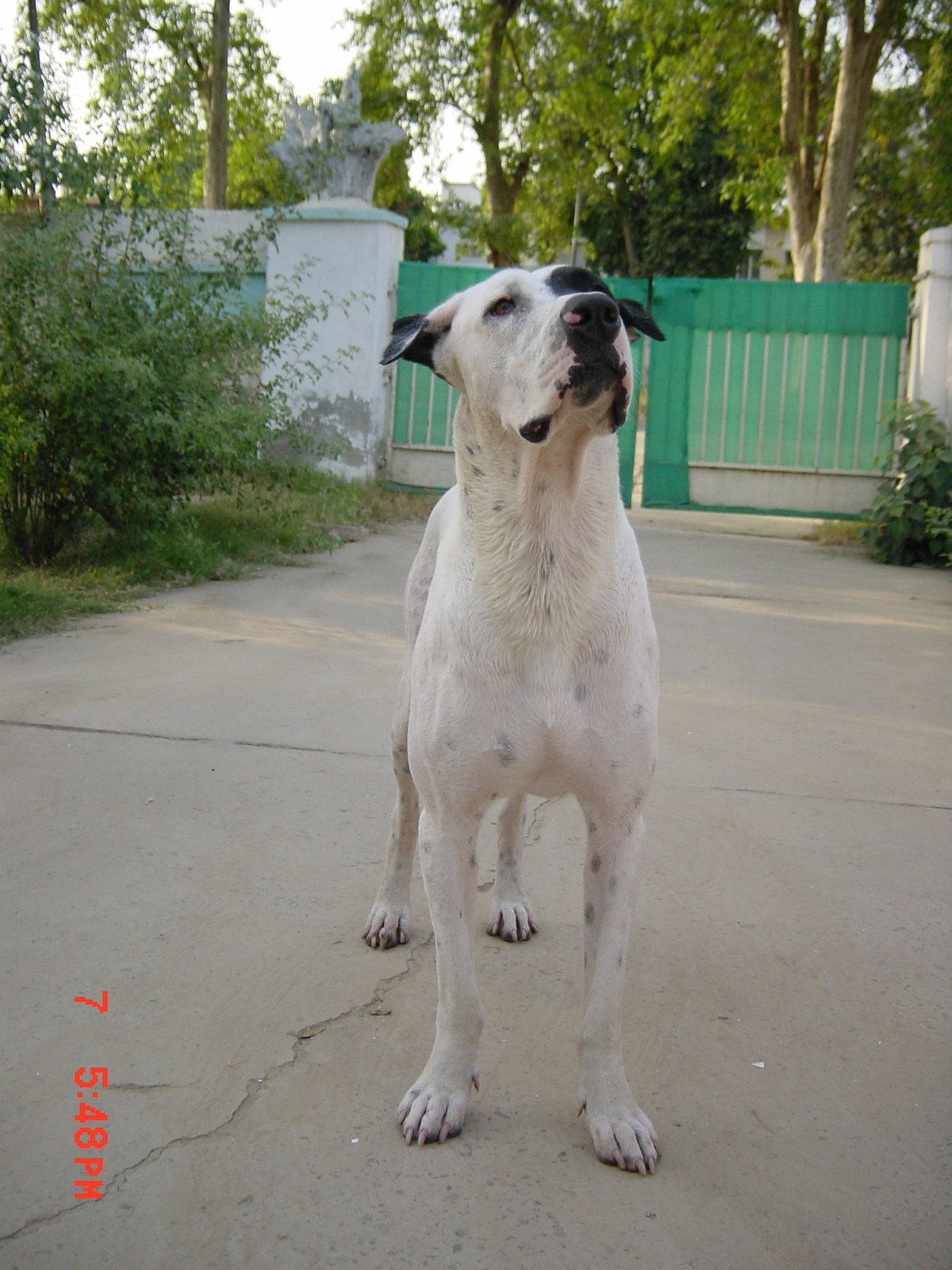 Predominantly White 13 month old Bully Kutta male with Black eye patch